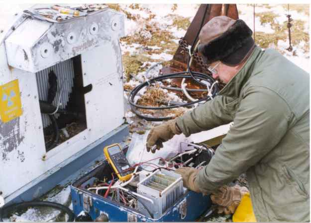 Servicing RTGs atop Fairway Rock (early 1990s); original picture from the U.S. Navy's Arctic Submarine Laboratory